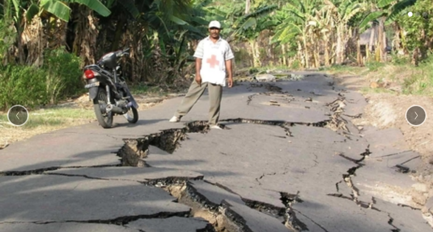 land cracks in alor